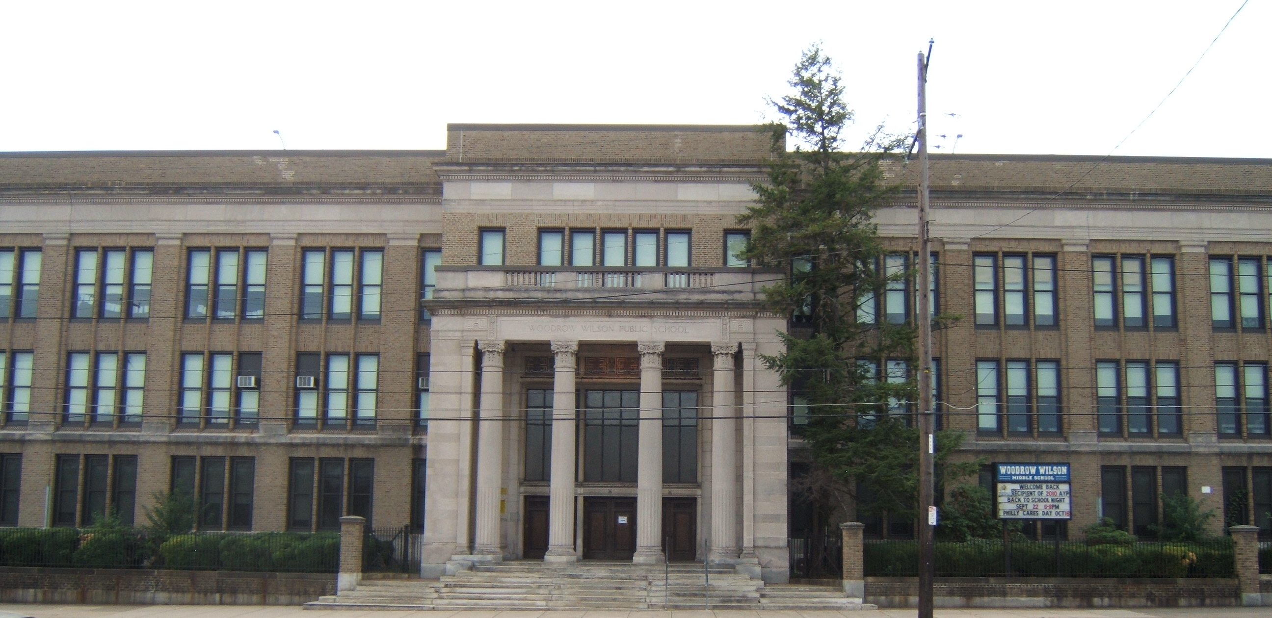 Woodrow Wilson Middle School, 1800 Cottman Avenue, Philadelphia, PA 19111